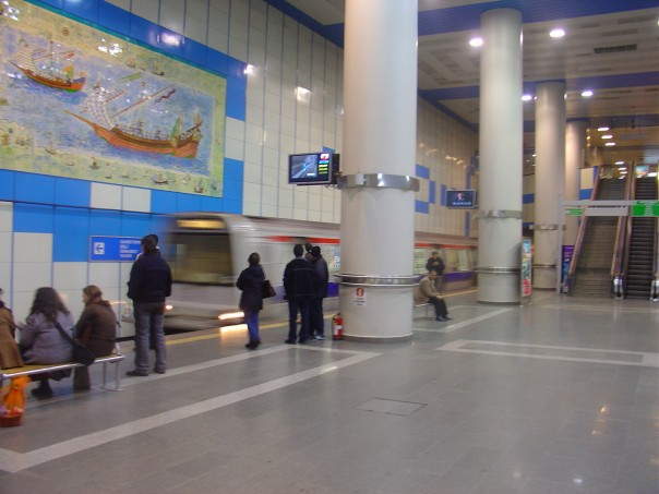 A subway station in Istanbul. According to the version of 02:30, 8 July 2010 of Istanbul Metro, the station is Levent.